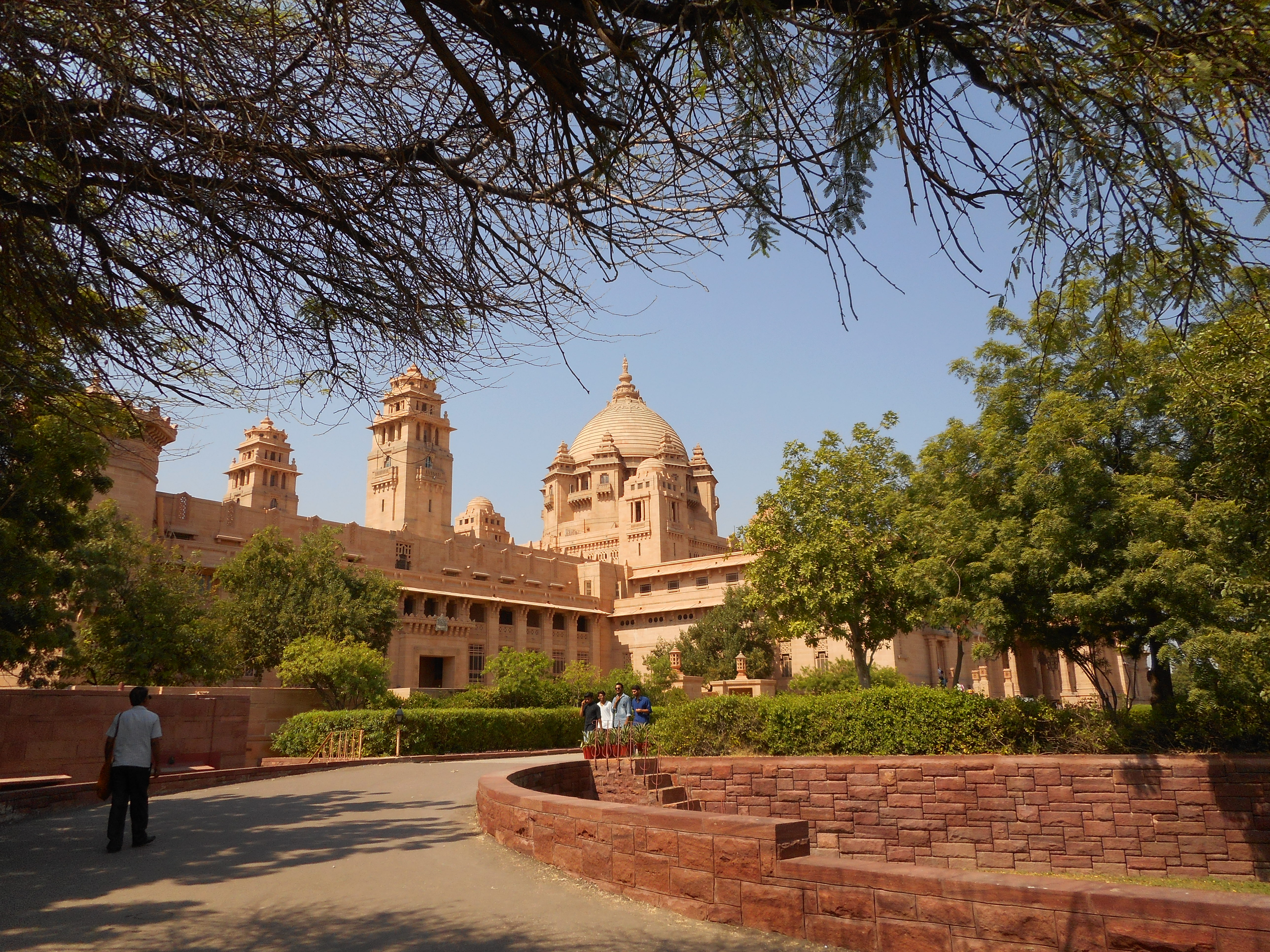 Ummaid Bhawan Palace